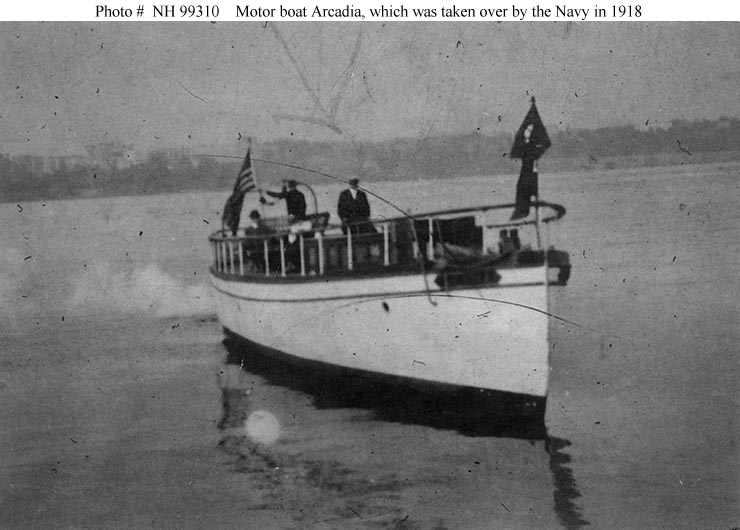 The private motorboat Arcadia prior to her United States Navy service as the patrol vessel